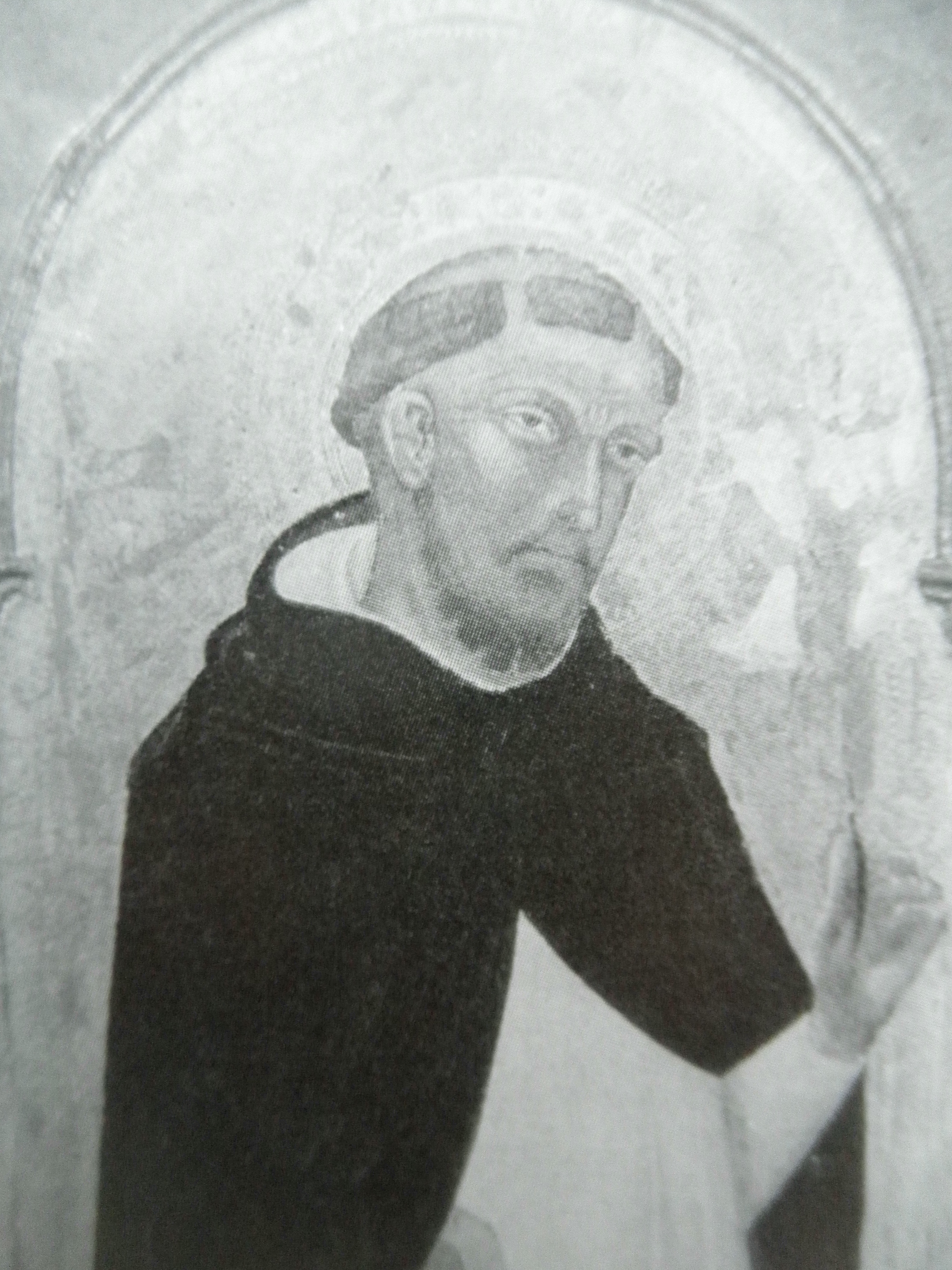 bartolo 1397